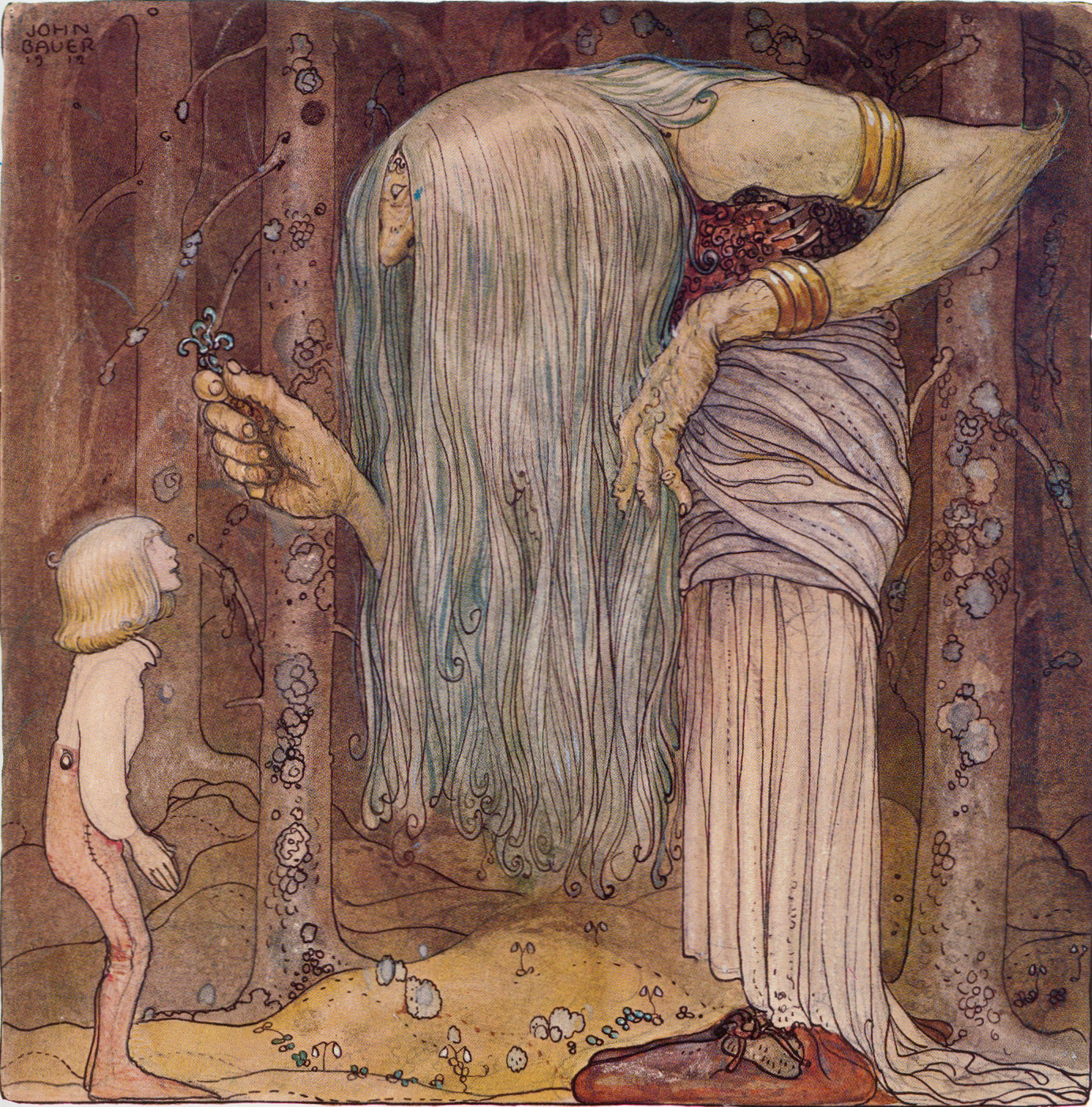 Illustration for "Pojken som aldrig var rädd" (The boy who was never afraid) by Alfred Smedberg in "Bland tomtar och troll" (Among gnomes and trolls), 1912. See also Image:Pojken som aldrig var rädd by John Bauer 1912.jpg and Image:Nej, sicken liten puttefnasker! Ropade trollet.jpg from the same story.